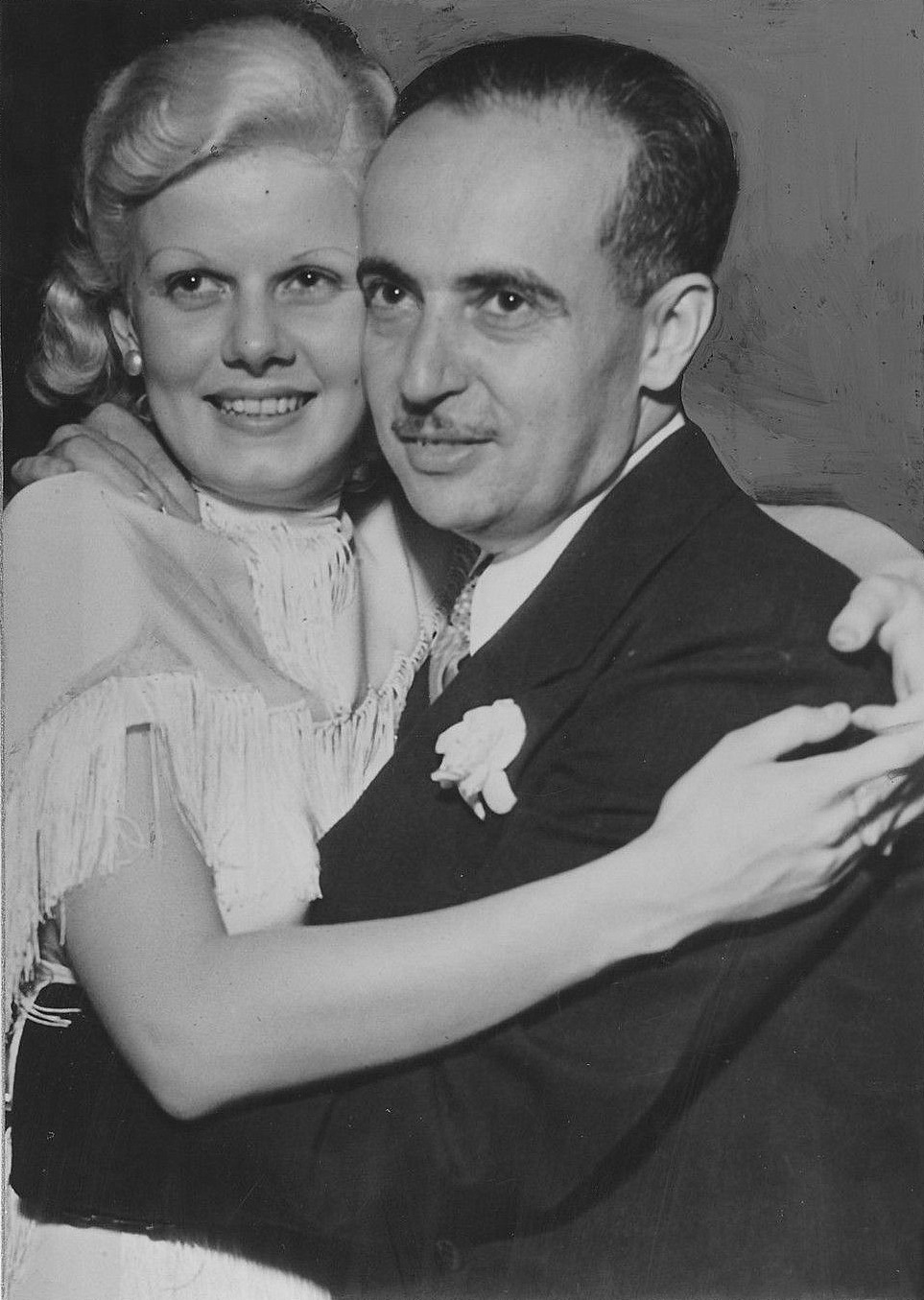 Photograph of newlyweds Paul Bern and Jean Harlow (1932). Author: International Newsreel